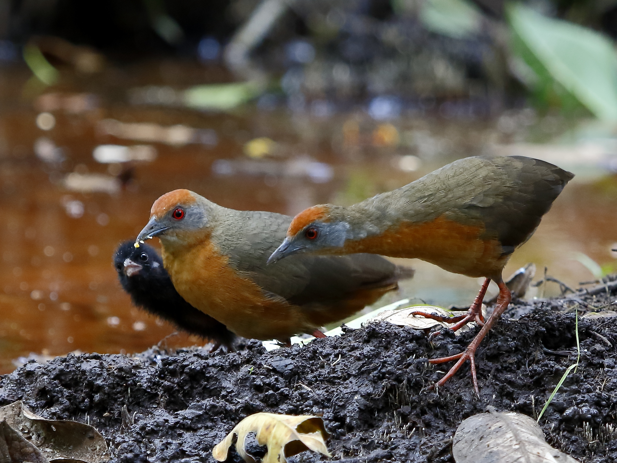 Russet-crowned crake, Dourado, São Paulo, Brazil